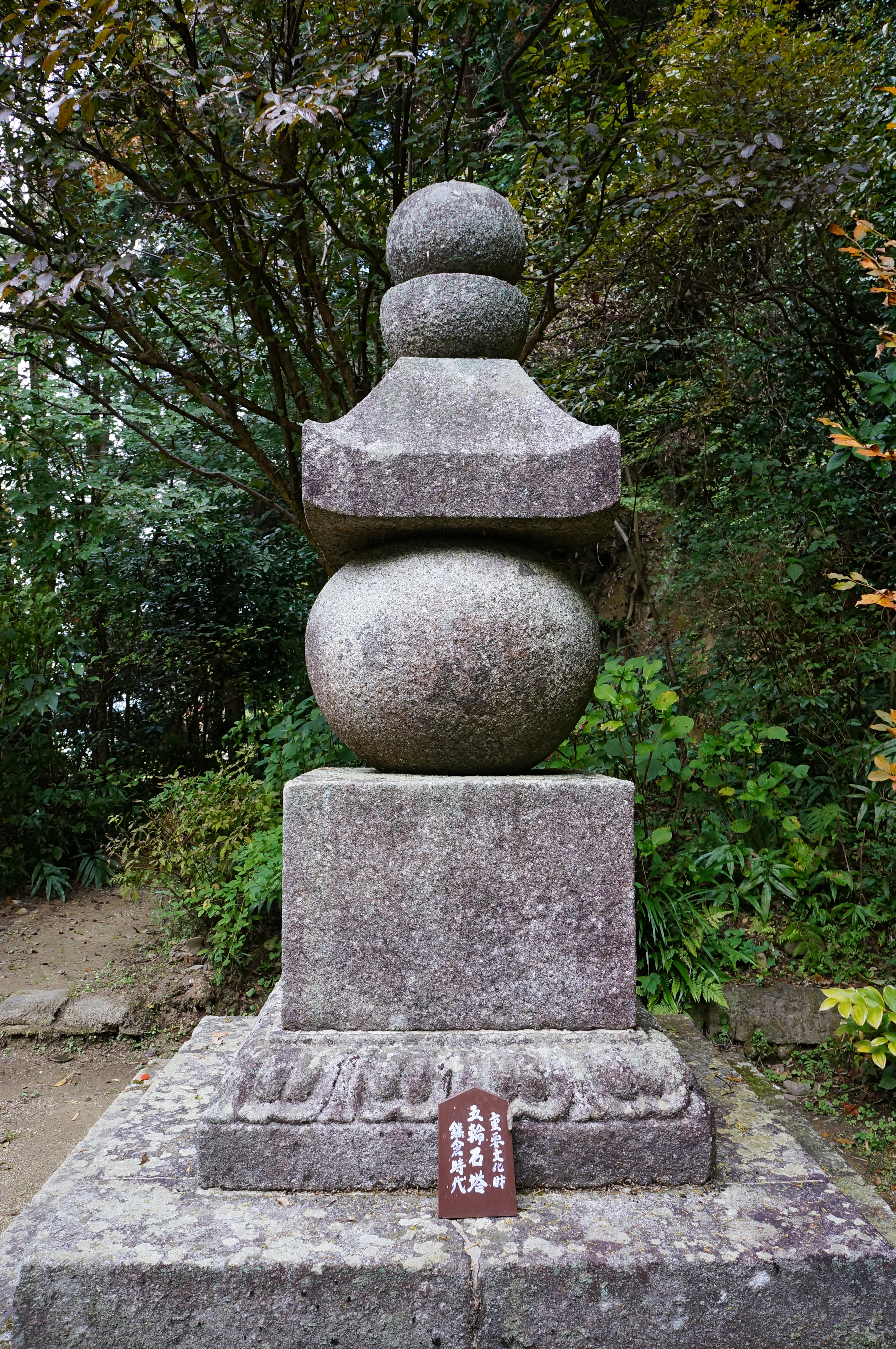 Gansen-ji in Kizugawa, Kyoto prefecture, Japan